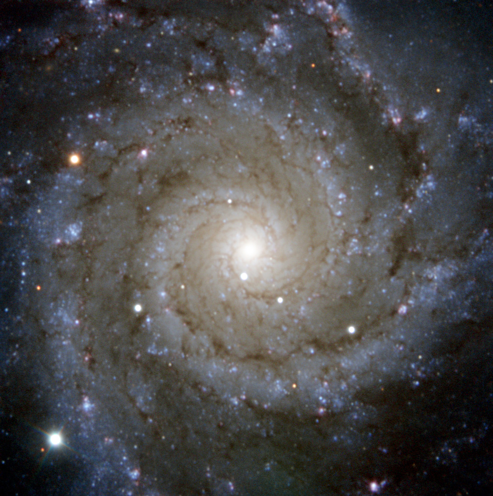 ESO's PESSTO survey has captured this view of Messier 74, a stunning spiral galaxy with well-defined whirling arms. However, the real subject of this image is the galaxy's brilliant new addition from late July 2013: a Type II supernova named SN2013ej that is visible as the brightest star at the bottom left of the image. Such supernovae occur when the core of a massive star collapses due to its own gravity at the end of its life. This collapse results in a massive explosion that ejects material far into space. The resulting detonation can be more brilliant than the entire galaxy that hosts it and can be visible to observers for weeks, or even months. PESSTO (Public ESO Spectroscopic Survey for Transient Objects) is designed to study objects that appear briefly in the night sky, such as supernovae. It does this by utilising a number of instruments on the NTT (New Technology Telescope), located at ESO's La Silla Observatory in Chile. This new picture of SN2013ej was obtained using the NTT during the course of this survey. SN2013ej is the third supernova to have been observed in Messier 74 since the turn of the millennium, the other two being SN 2002ap and SN 2003gd. It was first reported on 25 July 2013 by the KAIT telescope team in California, and the first "precovery image" was taken by amateur astronomer Christina Feliciano, who used the public access SLOOH Space Camera to look at the region in the days and hours immediately before the explosion. Messier 74, in the constellation of Pisces (The Fish), is one of the most difficult Messier objects for amateur astronomers to spot due to its low surface brightness, but SN2013ej should still be visible to careful amateur astronomers over the next few weeks as a faint and fading star.